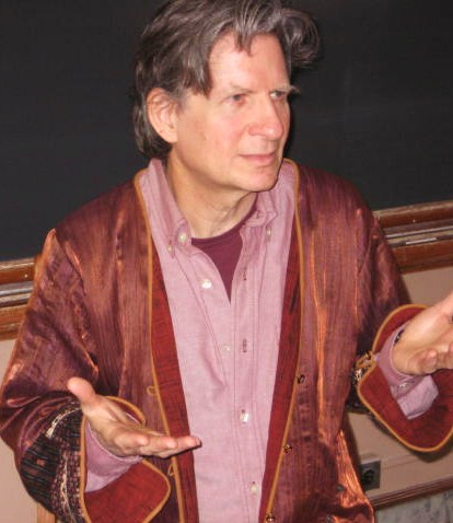 Mark Satin, author of Radical Middle (2004) and New Age Politics: Healing Self and Society (1979, orig. 1976), guest-lecturing about "life and political ideologies" at UC Berkeley.